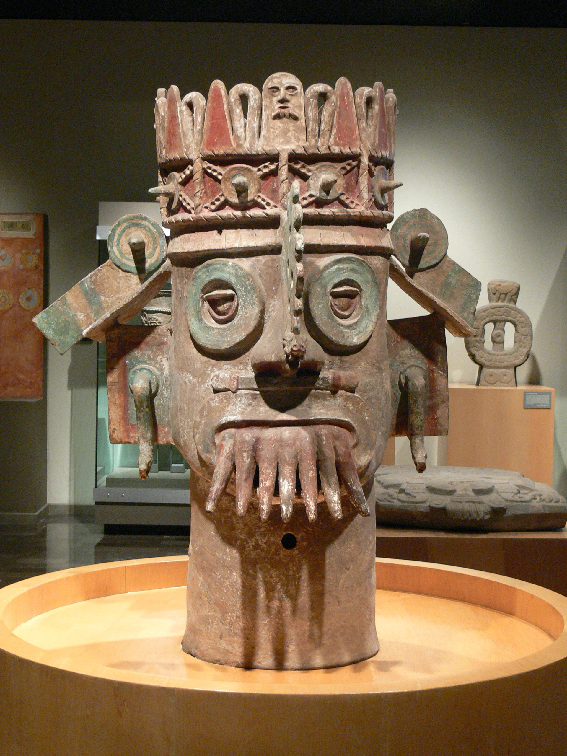 God of water from Tehuacan ( Puebla ), 900-1521 CE. National Museum of Anthropology, in Mexico City. Despite its title, this is not an Olmec piece. In fact, it's most likely Aztec, some 2500 years after the Olmec.